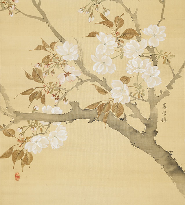 Sumizome-zakura (墨染桜)